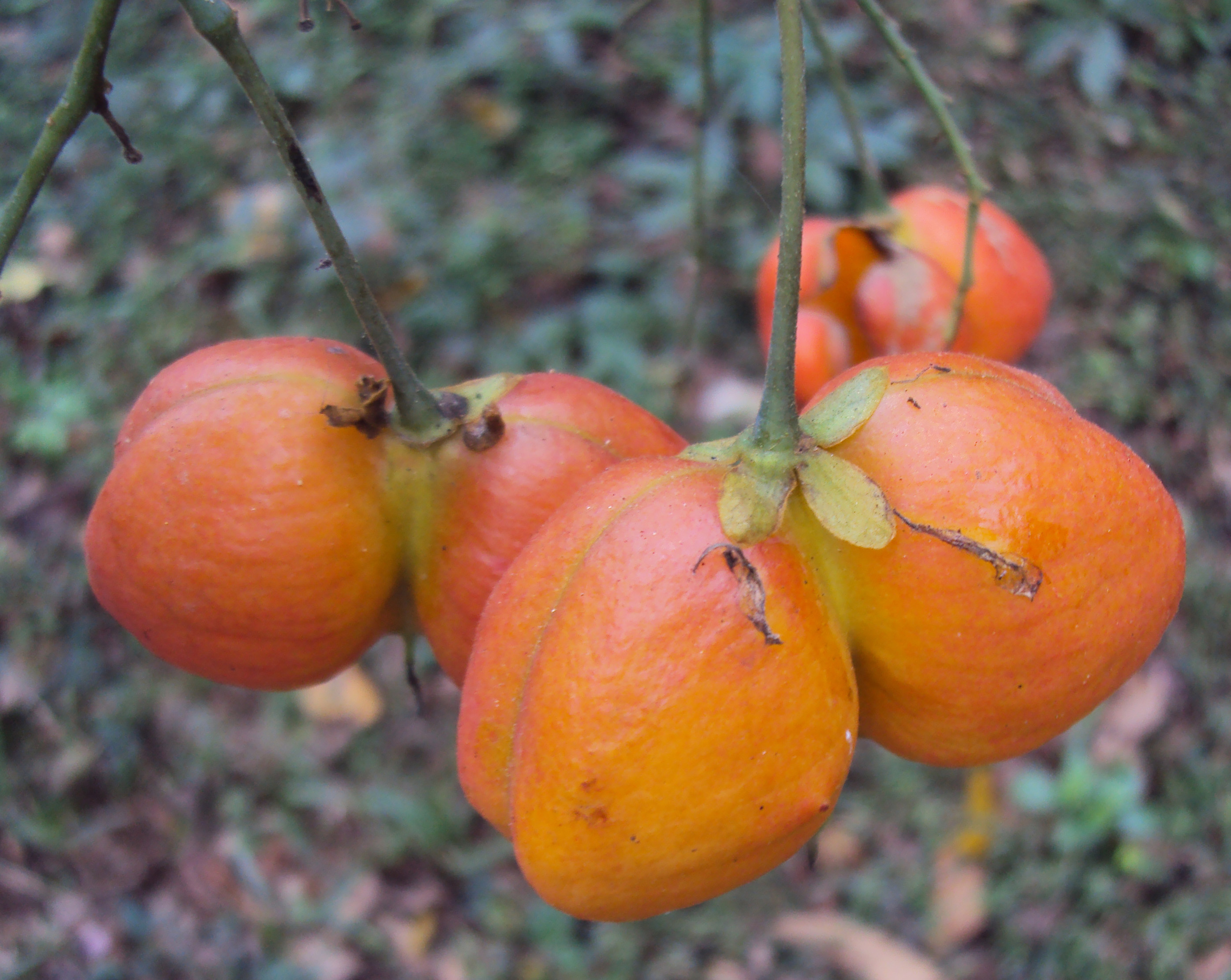 Harpullia arborea